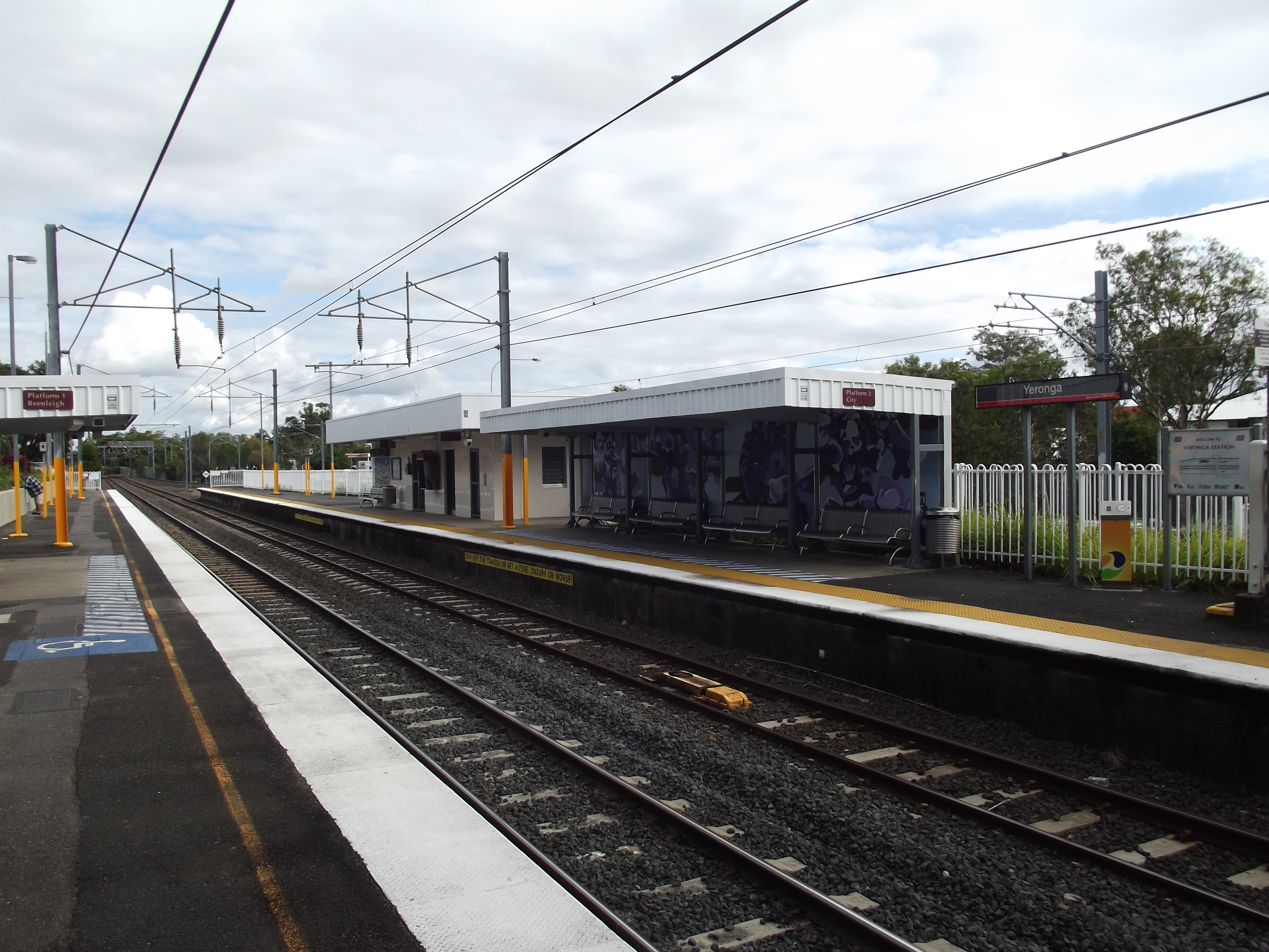 A photo of the Yeronga railway station, operated by TransLink, located in Brisbane, Australia.